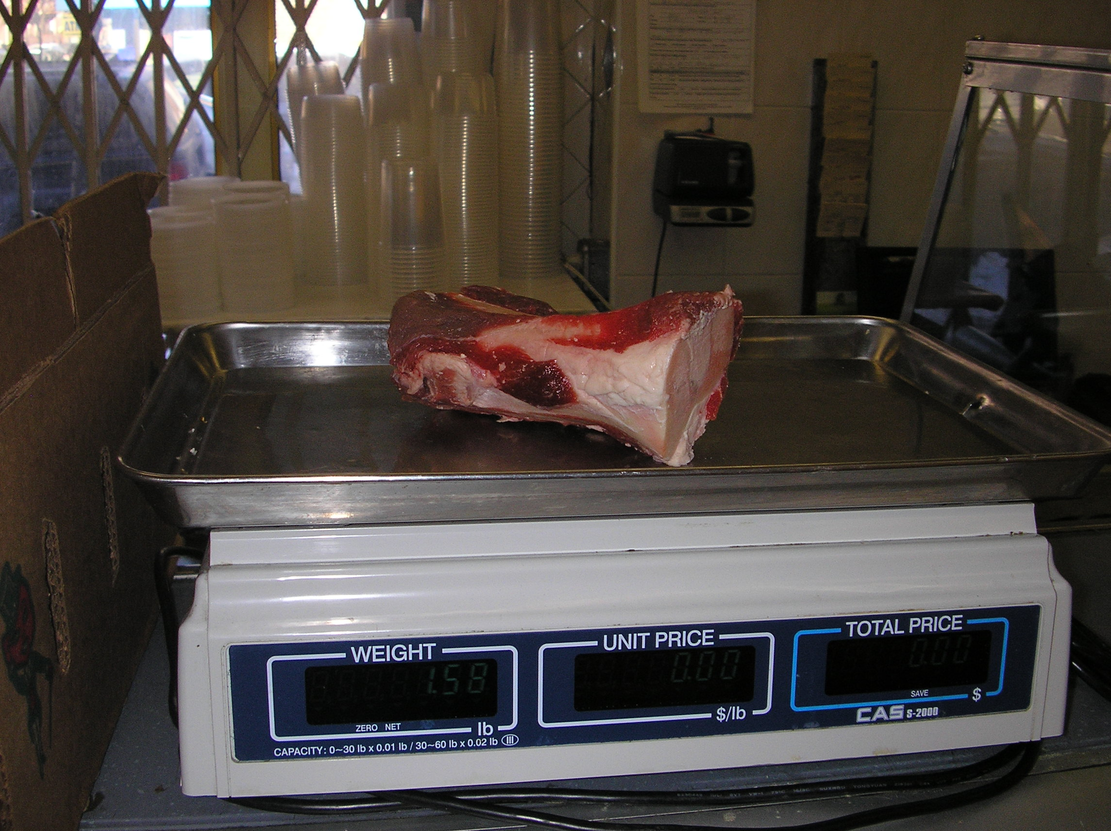 foreleg part of kosher slaughtered livestock